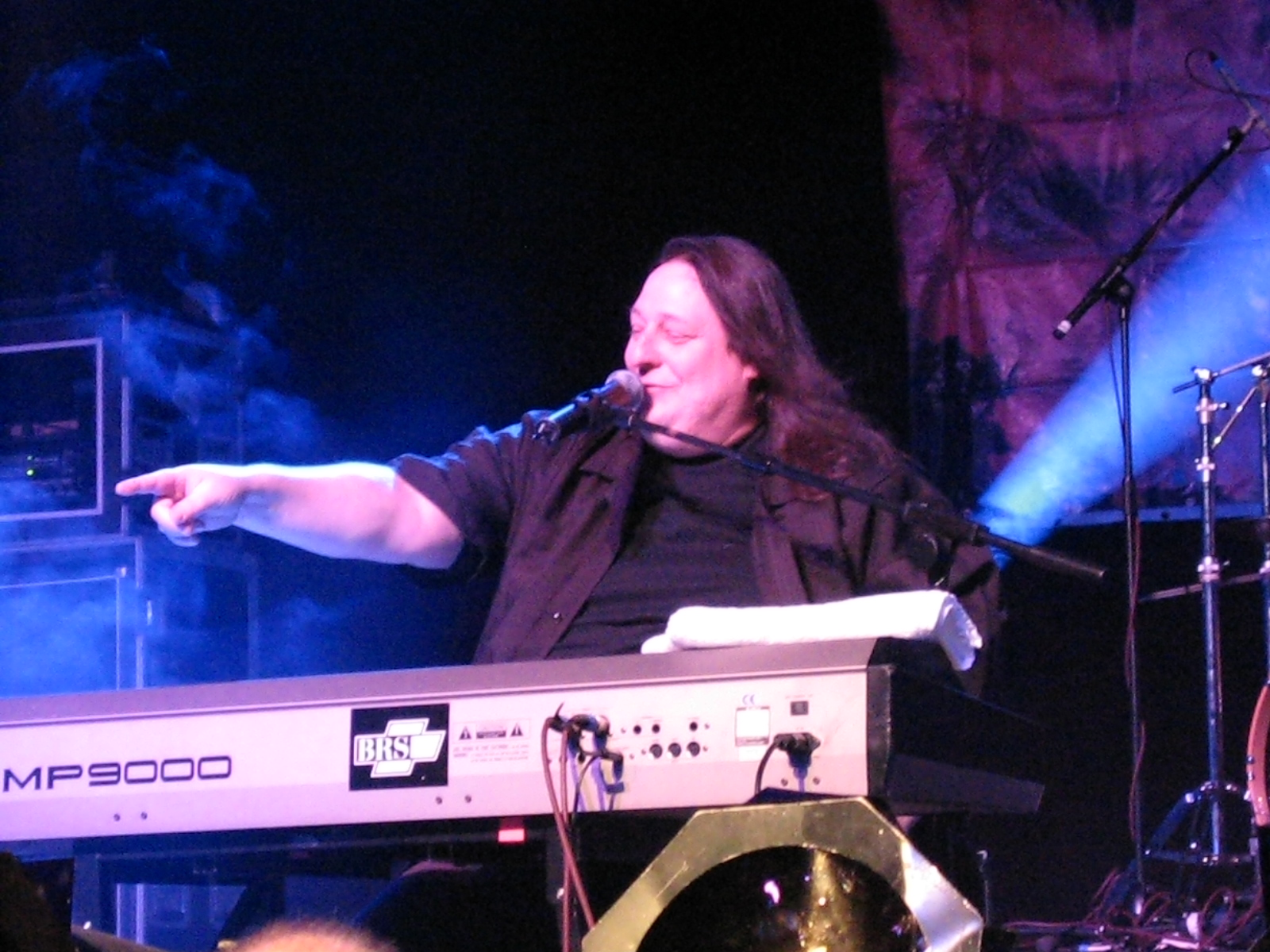 Jon Oliva's Pain on stage at ProgpowerUK 2, Cheltenham, England. March 31st 2007.